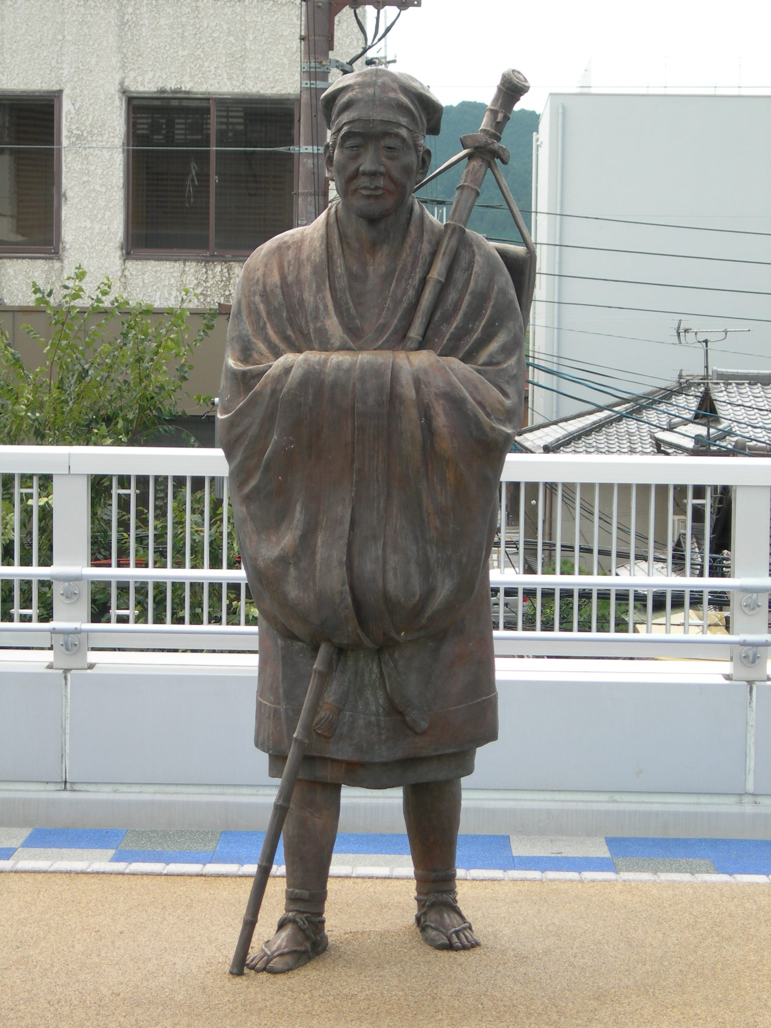 Statue of Matsuo Bashō in Ishiyama Station, Ōtsu, Shiga. taken in 2005.